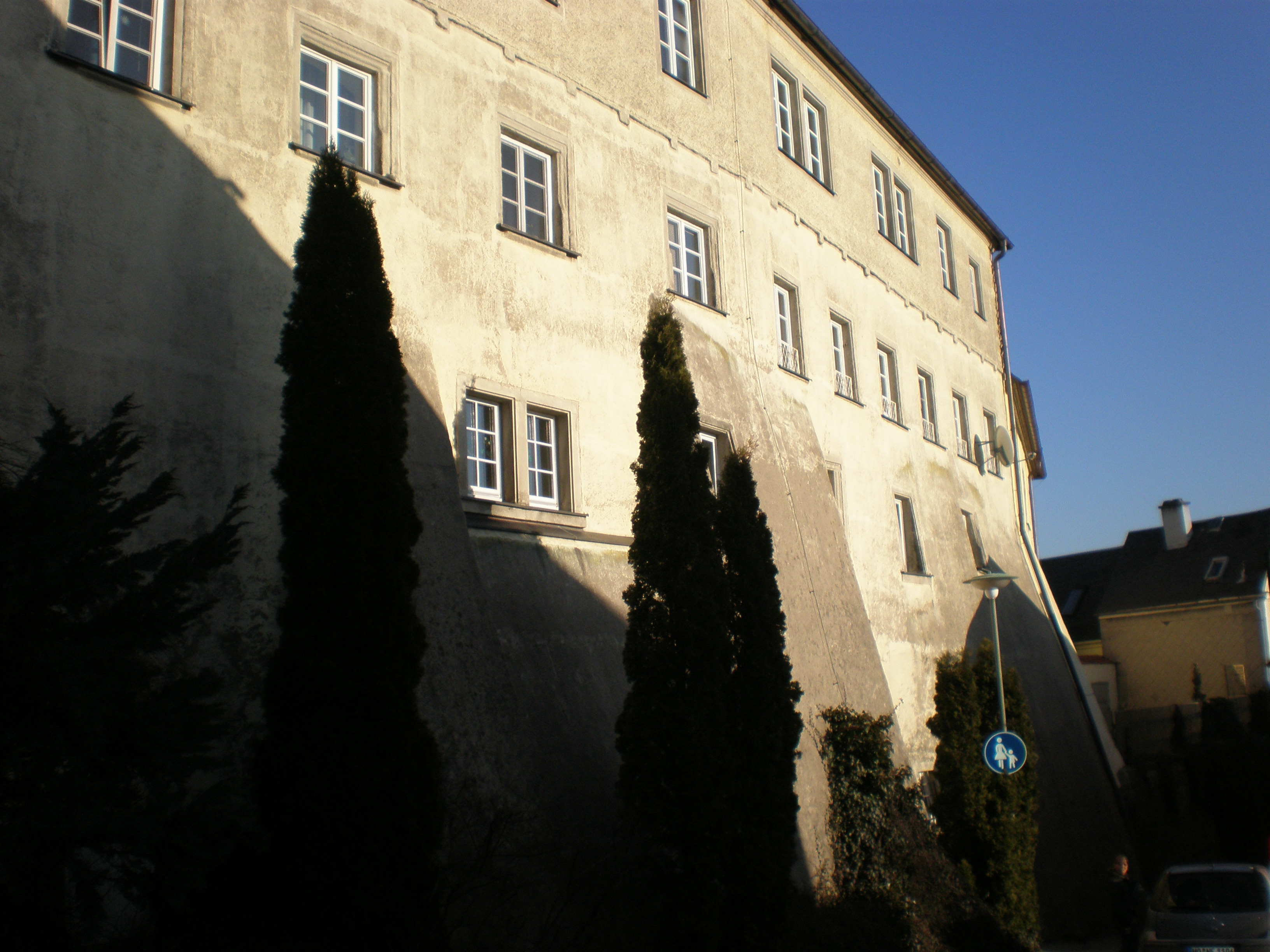 The vicarage in Münchberg.